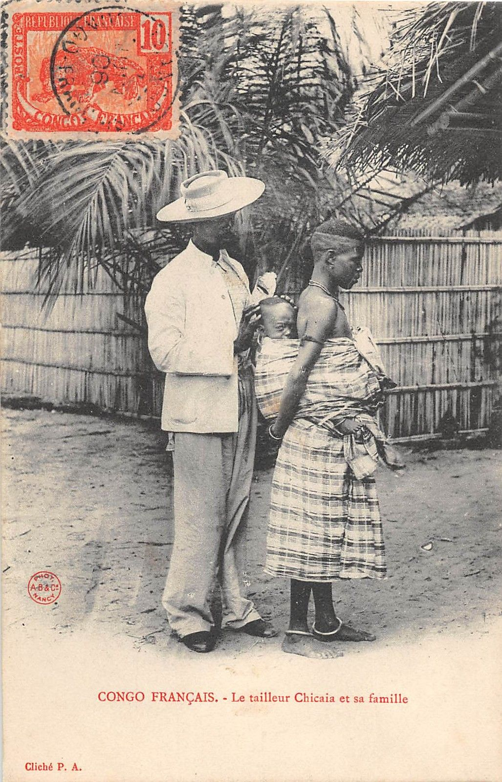 French Congo - Chicaia tailor and his family